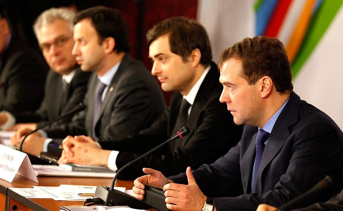 At a meeting of the Commission for Modernisation and Technological Development of Russia’s Economy.